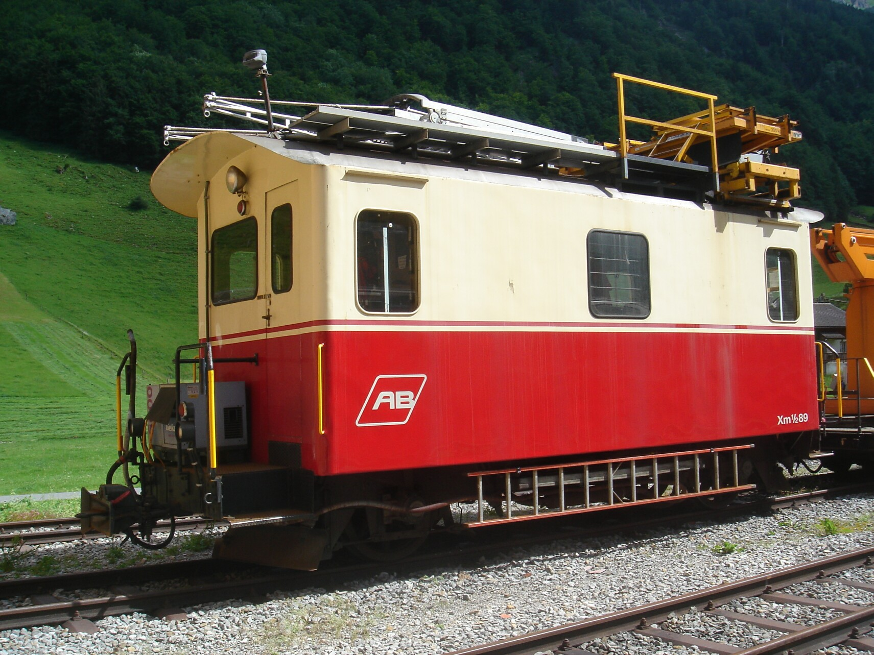 Catenary service railcars of the Appenzeller Bahnen in Wasserauen. This vehicle was built in 1962 on the base of a Säntis railcar (AWW CFe 2/2 3, from 1947 AB CFe 2/2 39).